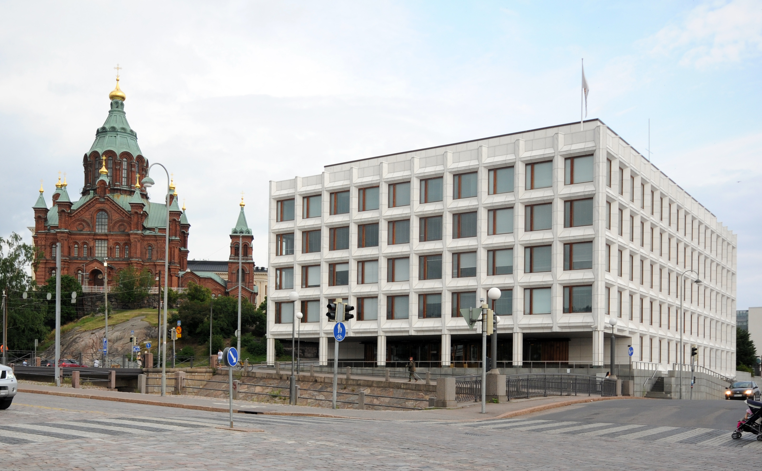 Finland: Helsinki, Uspenski Cathedral and Stora Enso headquarters